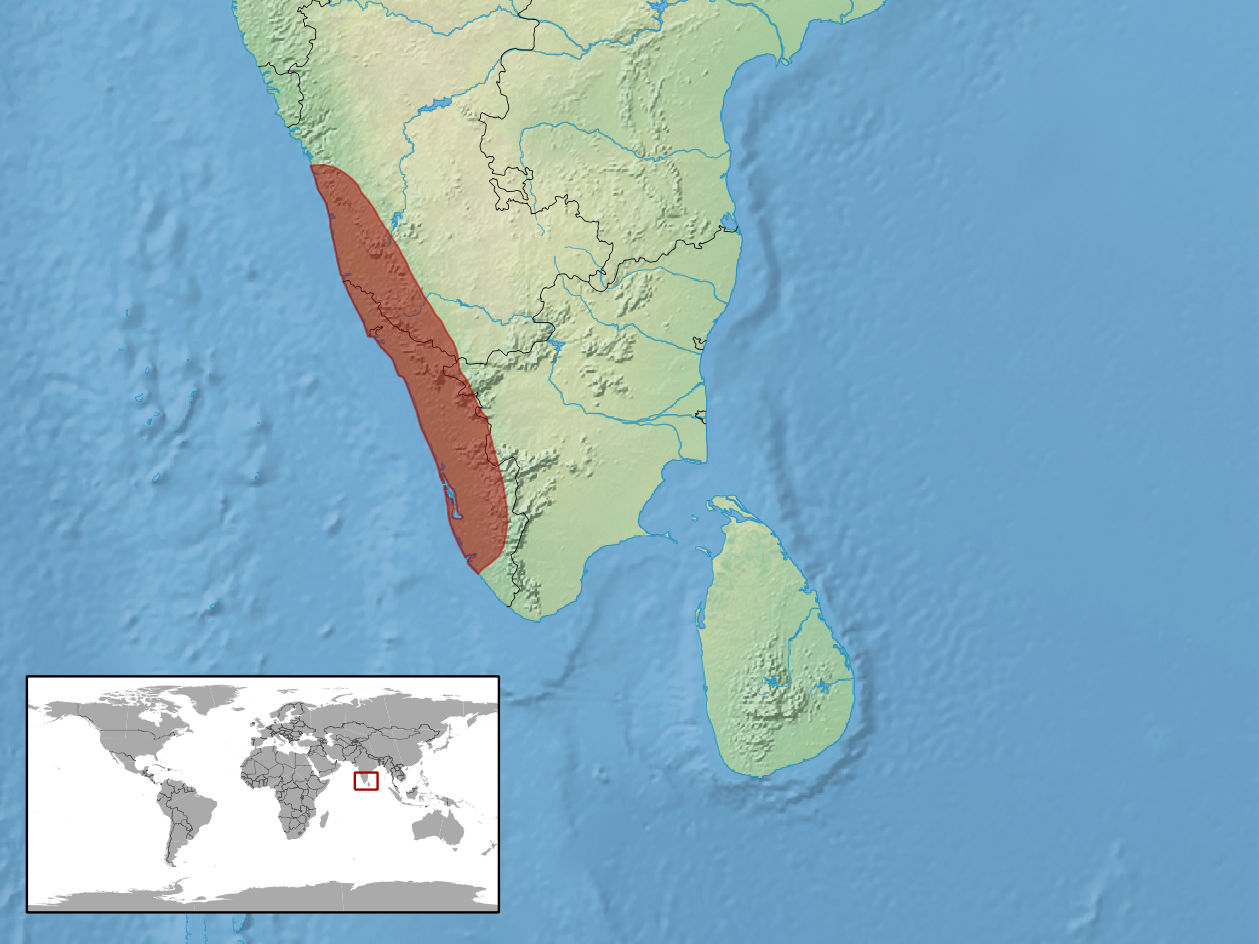 Geographic distribution of Sphenomorphus dussumieri. Range according to RDB without Sri Lanka.